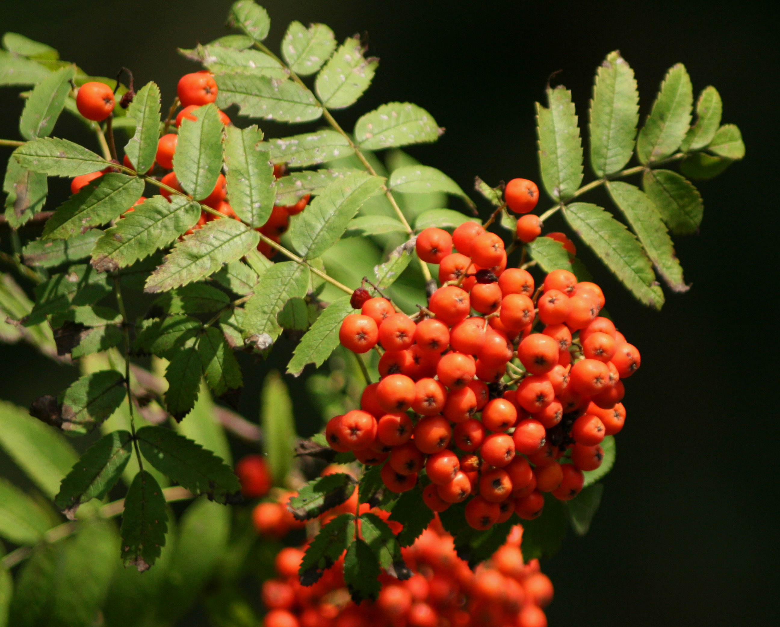 Rowan, near Rybnik, Poland.